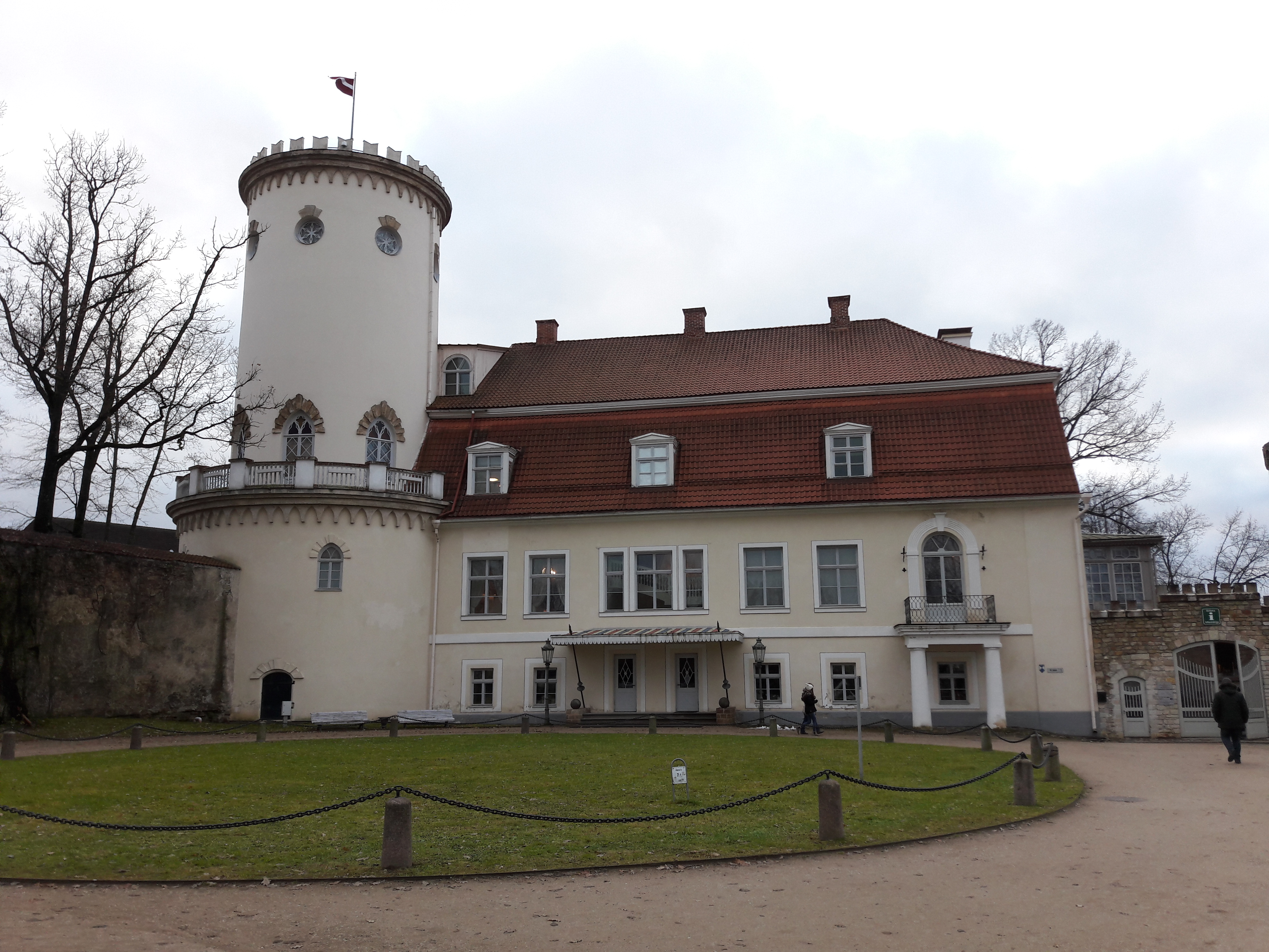 Cēsis New Castle in autumn 2016